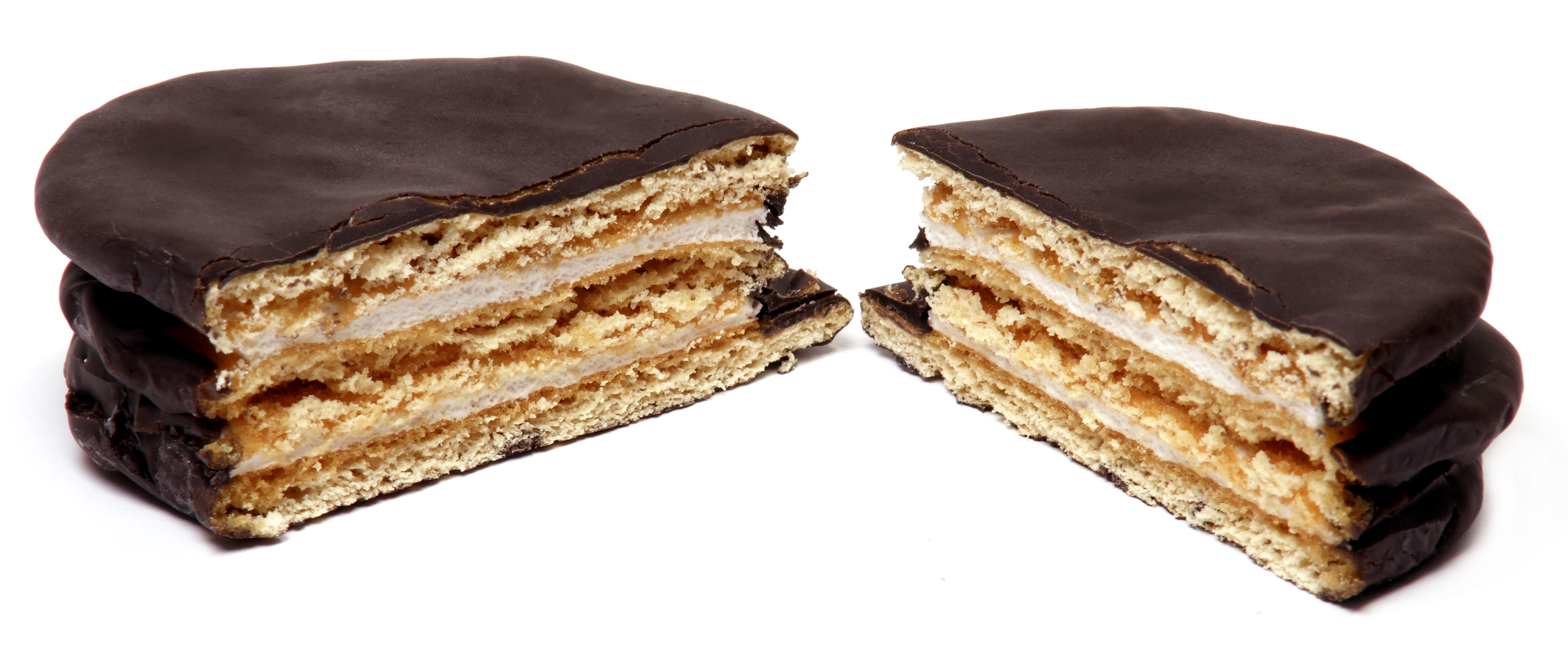 A Double-Decker Moon Pie made by the Chattanooga Bakery. Please check my Wikimedia User Gallery for all of my public domain works.